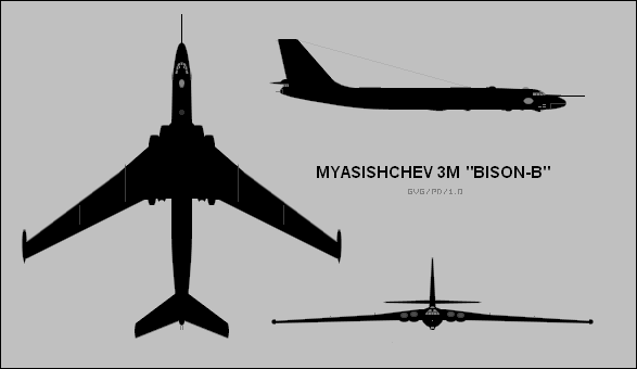 Three-view silhouette of the Myasishchev 3M "Bison-B".